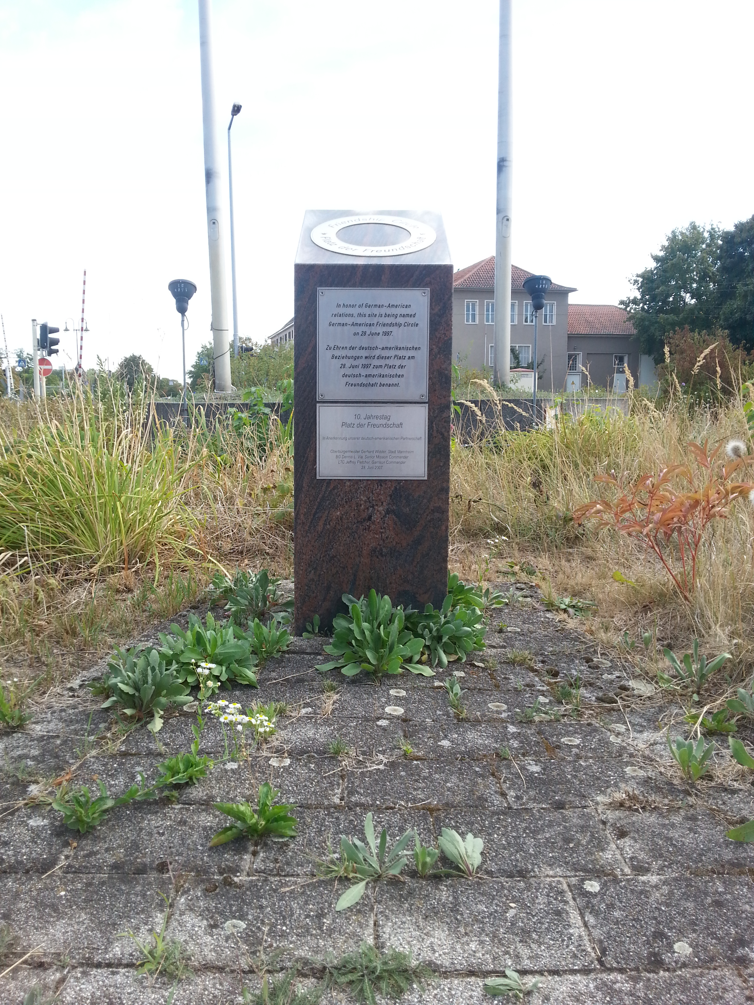 [German-American] Friendship Circle in the Benjamin Franklin Village in Mannheim, Germany